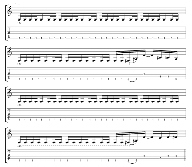 Vader "I Am Who Feasts Upon Your Soul" main riff